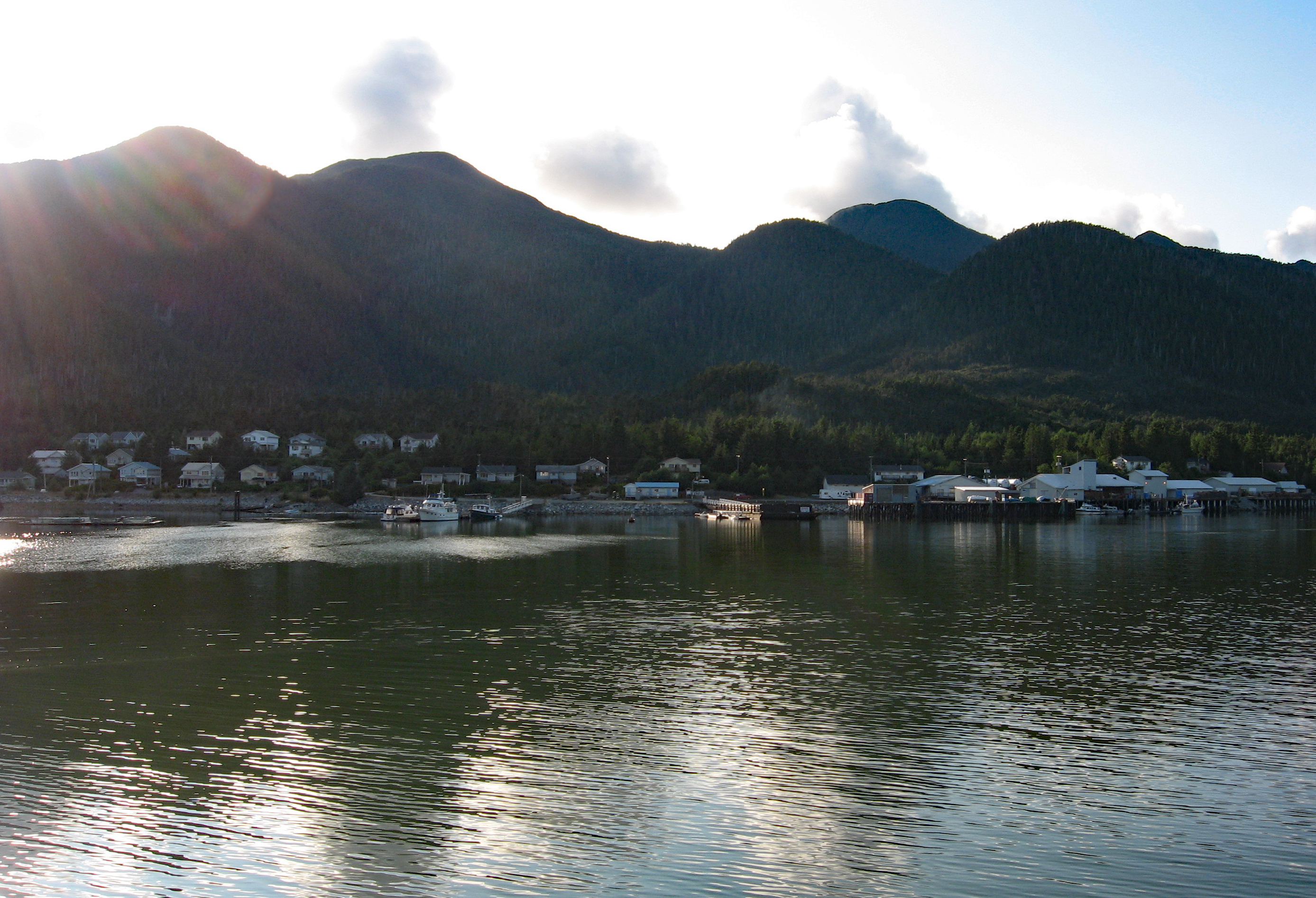 Klemtu, British Columbia as seen from the Alaska ferry M/V Columbia on Aug 5, 2006